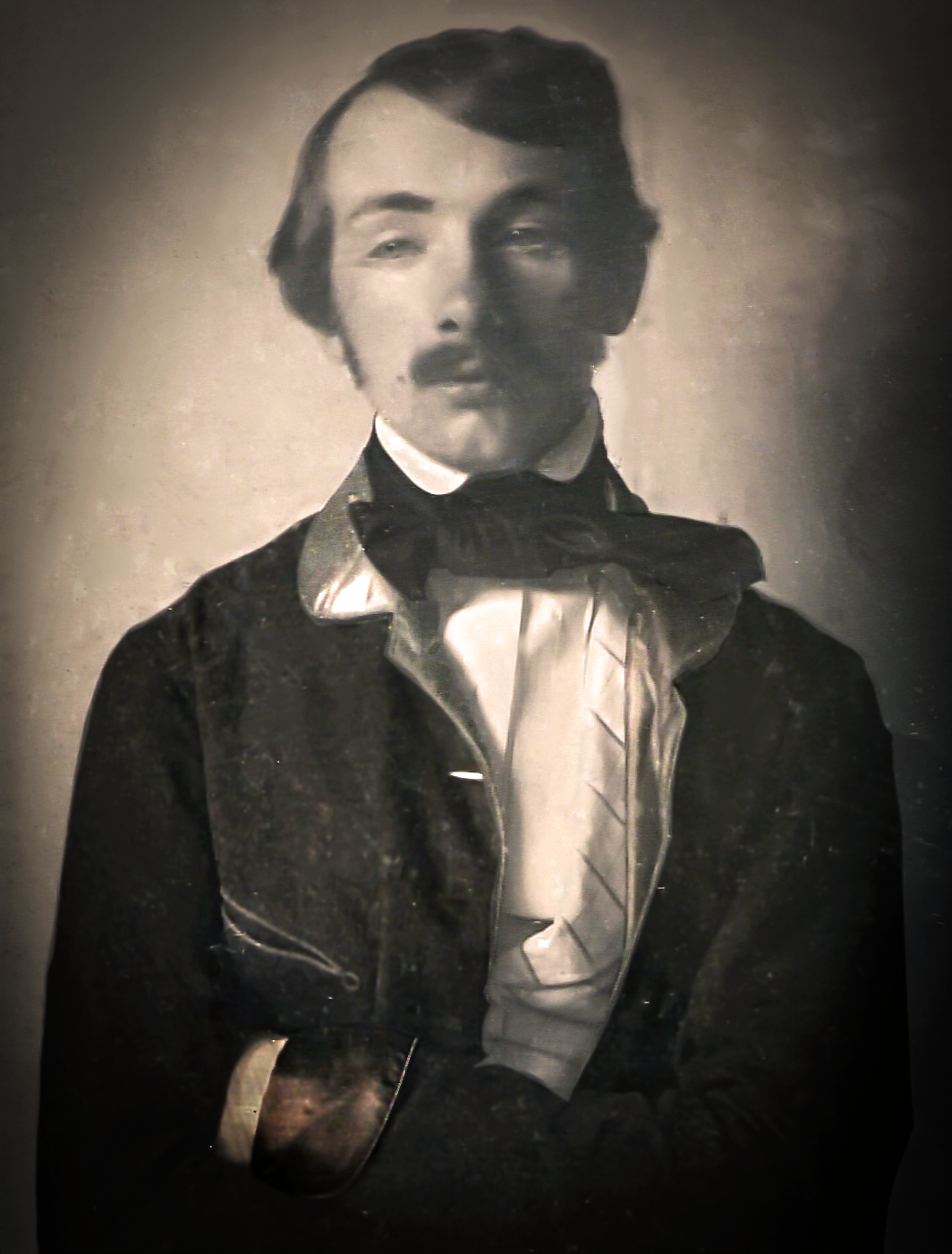 Grand duke Ludwig II. of Baden. 1825-1858.